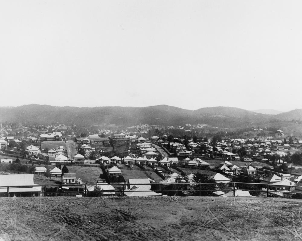 Streets, houses, and land in the suburb of Highgate Hill, ca. 1902 Panoramic view from Highgate Hill north to the Brisbane River. Eastern half of the photograph showing homes in the area. See negative number 142828 for the western section.